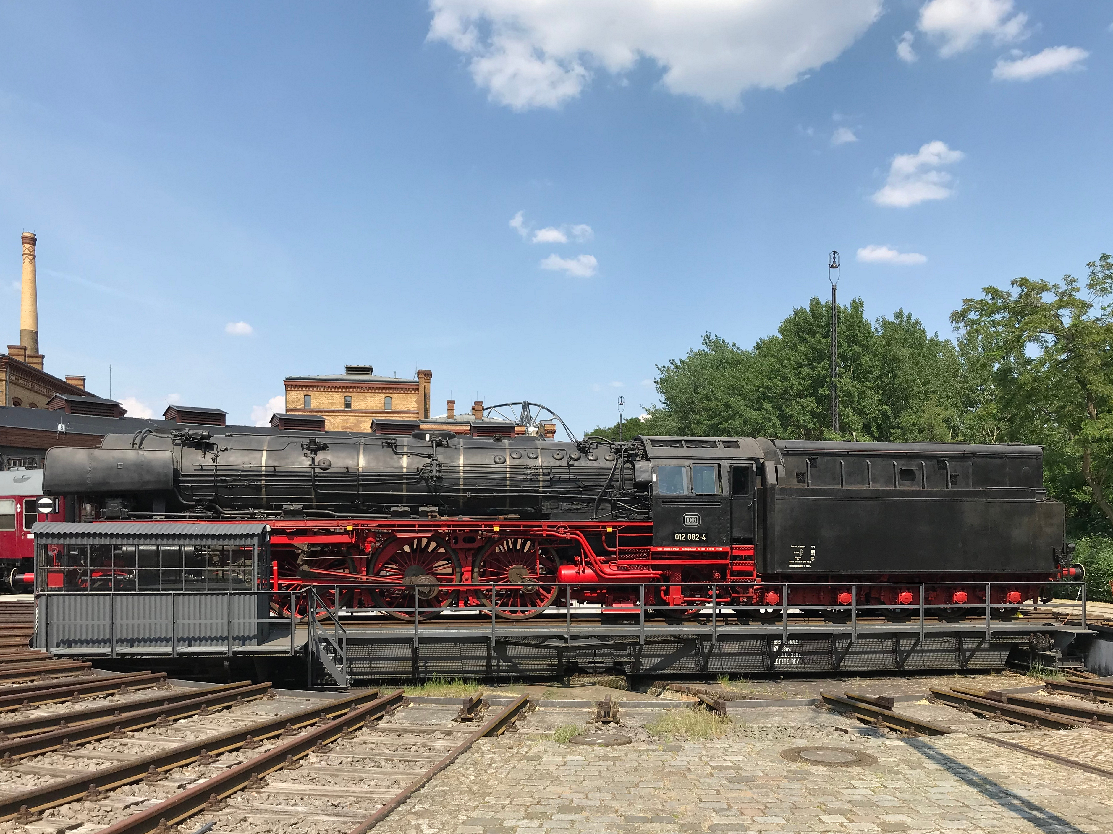 Preserved express steam loco 012 082 on the turntable at the German Museum of Technology.